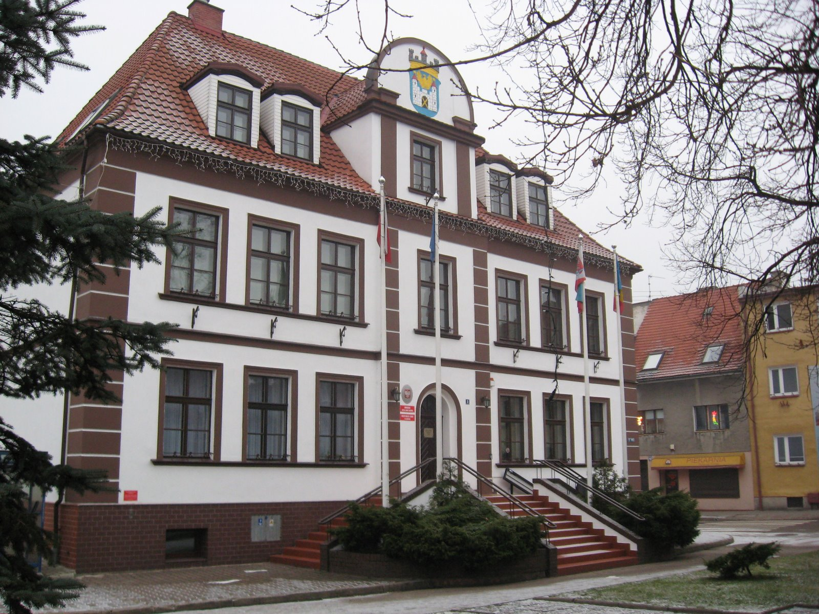 Złocieniec town hall